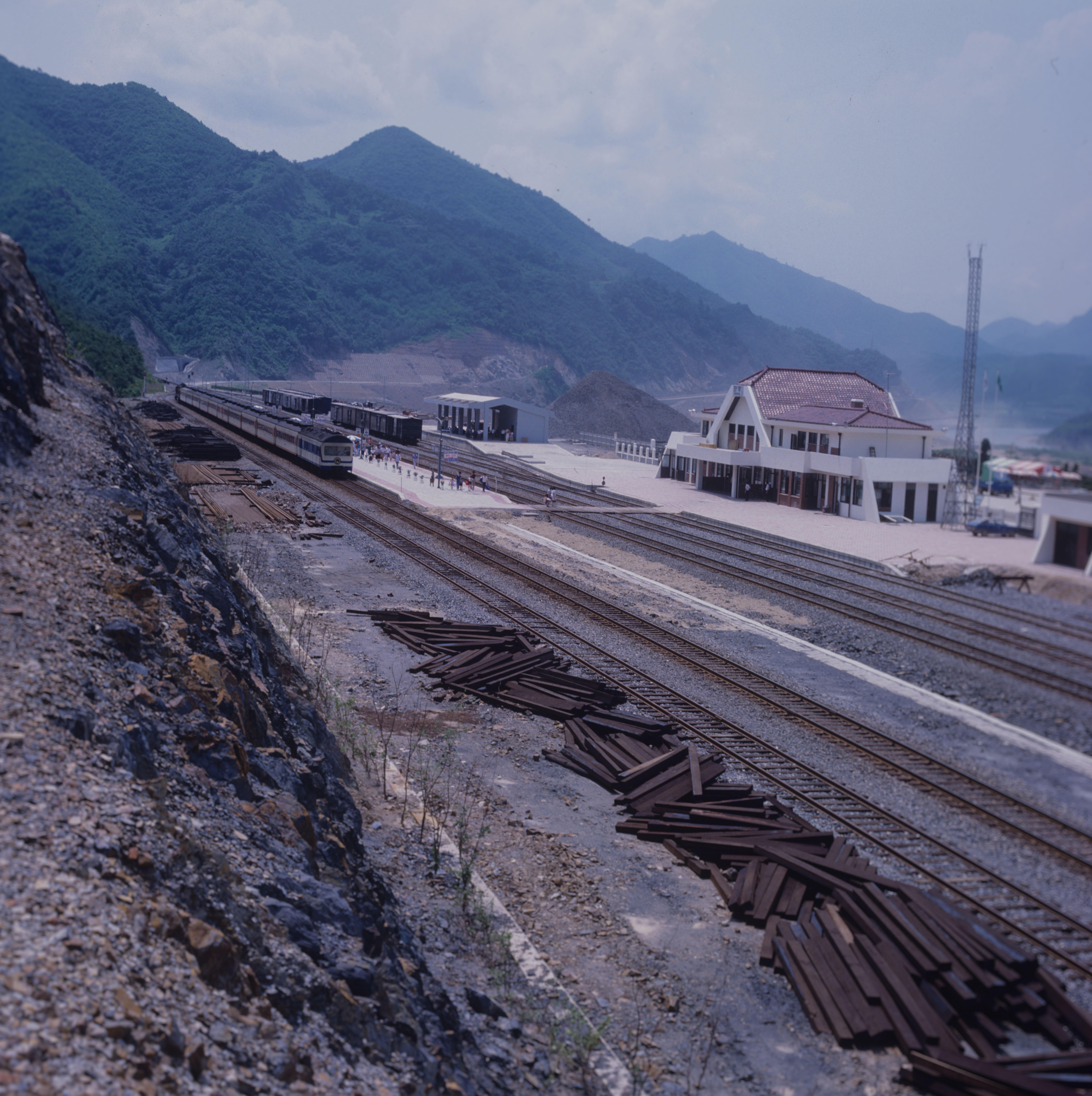 Danyang Station 1985